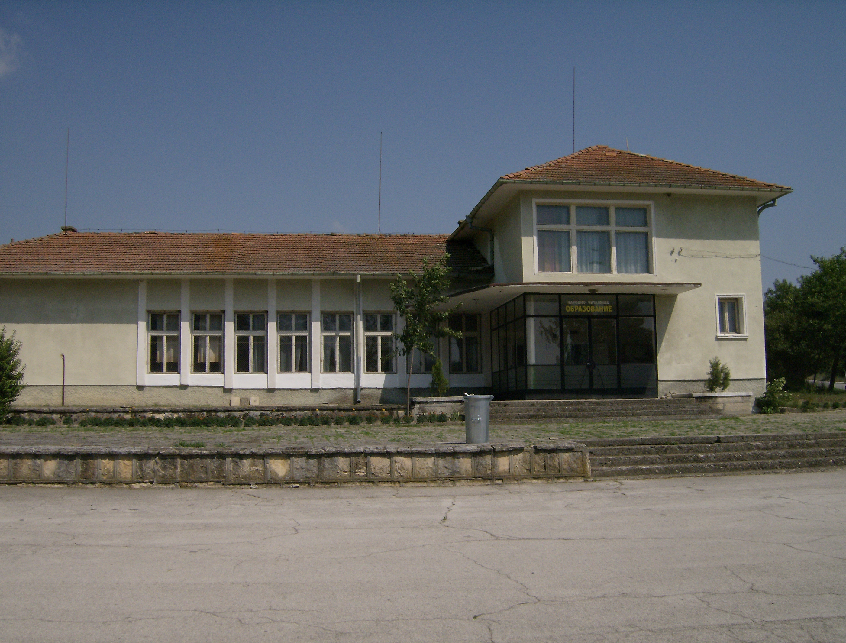 Ovcharovo (Shumen District)